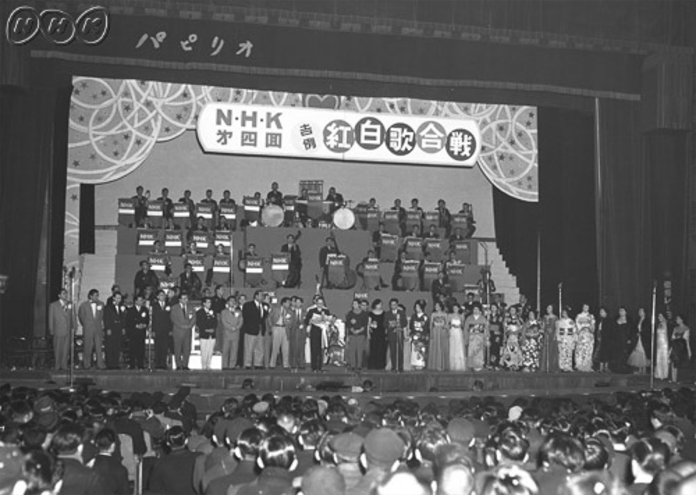 Kohaku Utagassen 1953